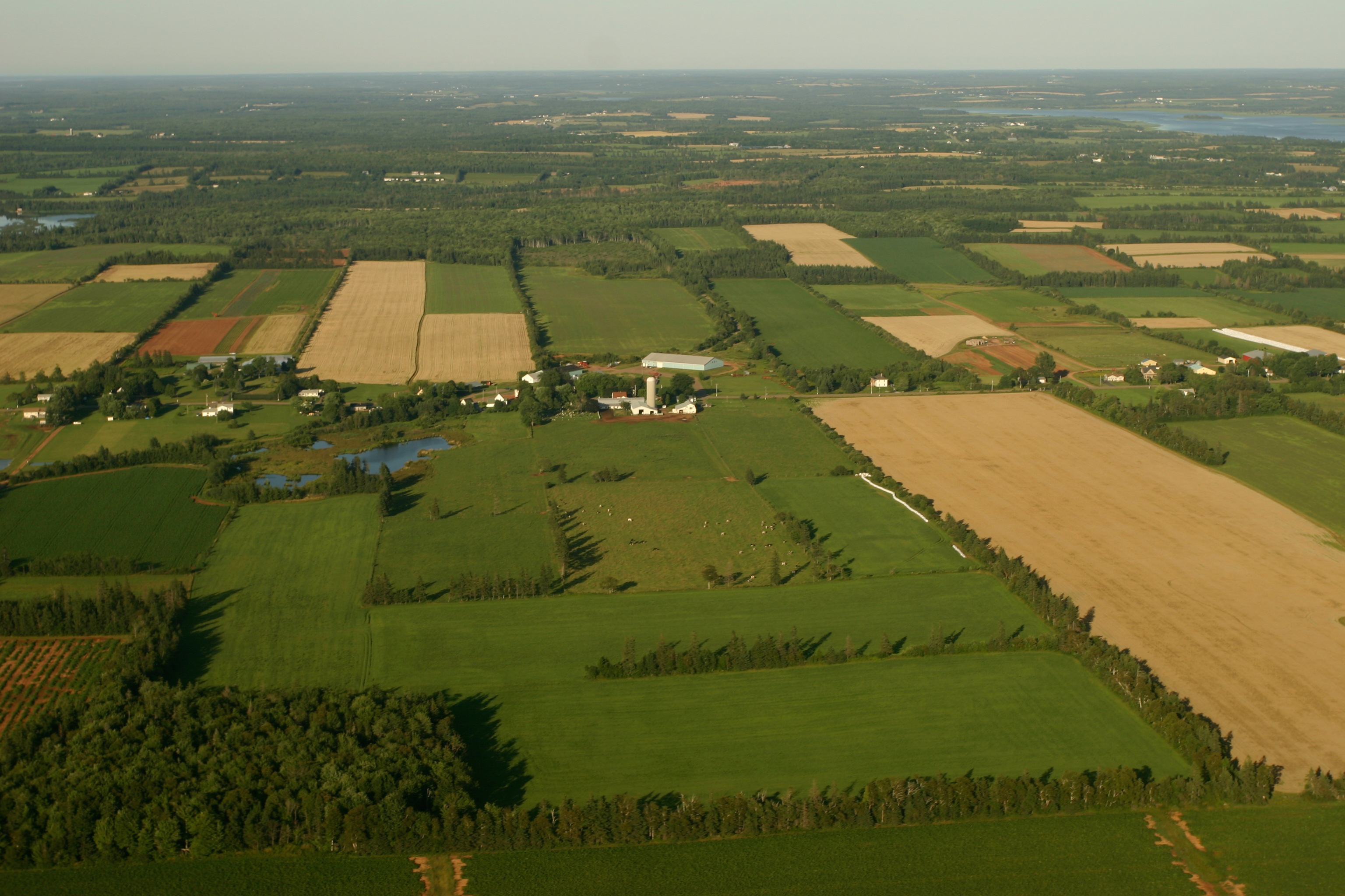 Another great visit, I'll be back soon!